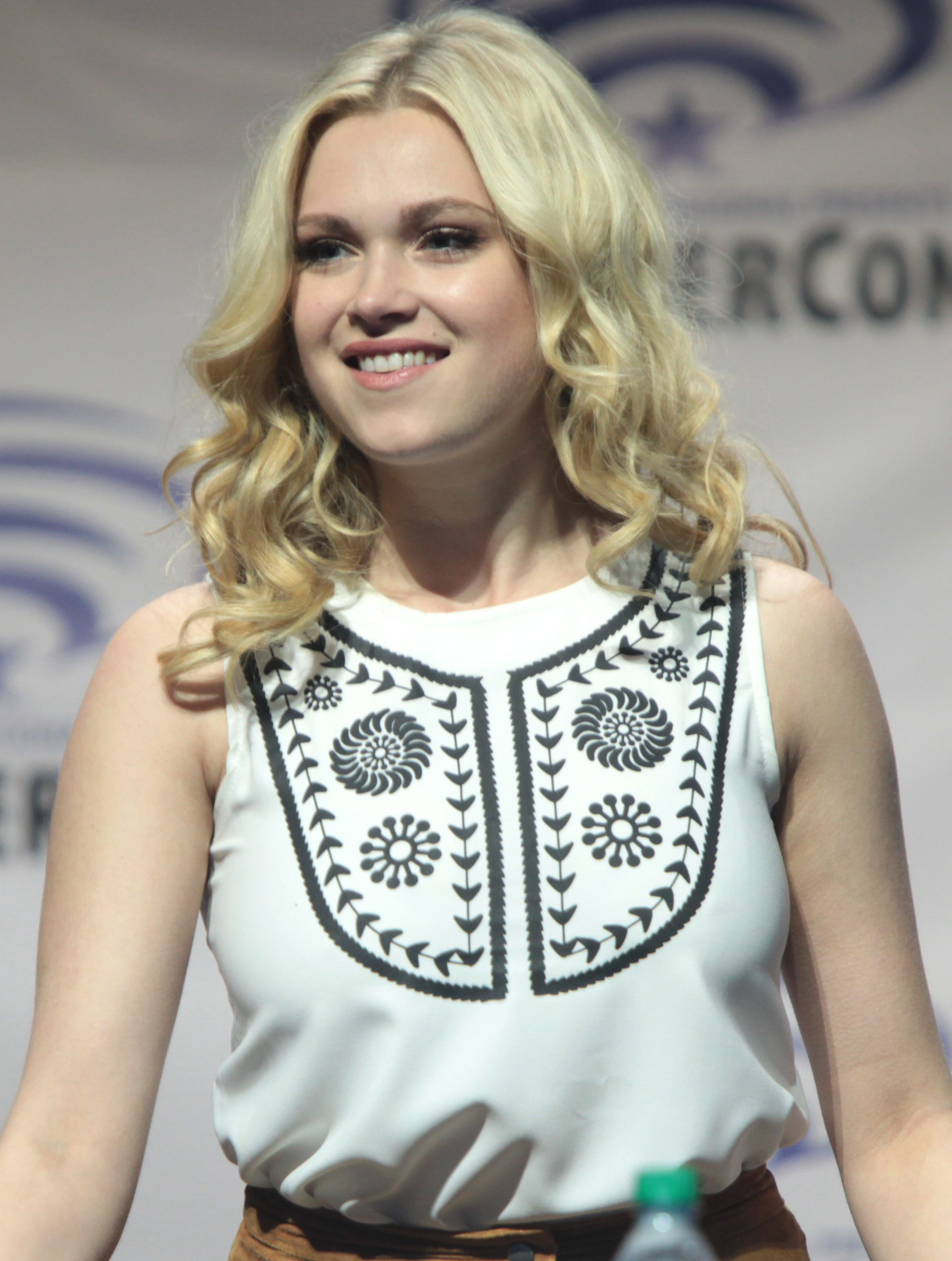 Eliza Taylor speaking at the 2016 WonderCon in Los Angeles, California.